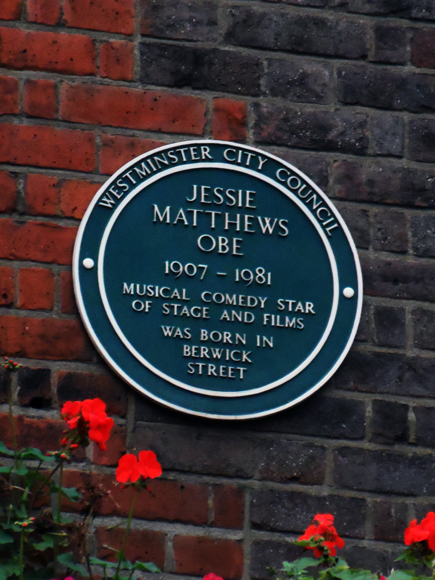 22 Berwick St, London W1F 0QA